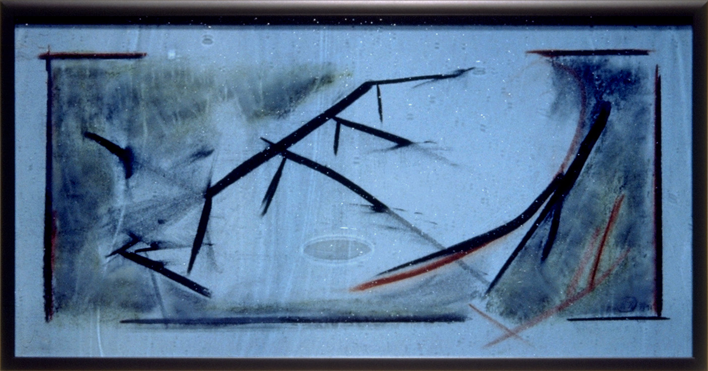 "Drake's Estero I" — by Robert Kehlmann (1991). Abstraction of Drakes Bay at Point Reyes National Seashore, California. Sandblasted hand-blown glass, mixed media. Museo del Vidria, Monterrey, México.